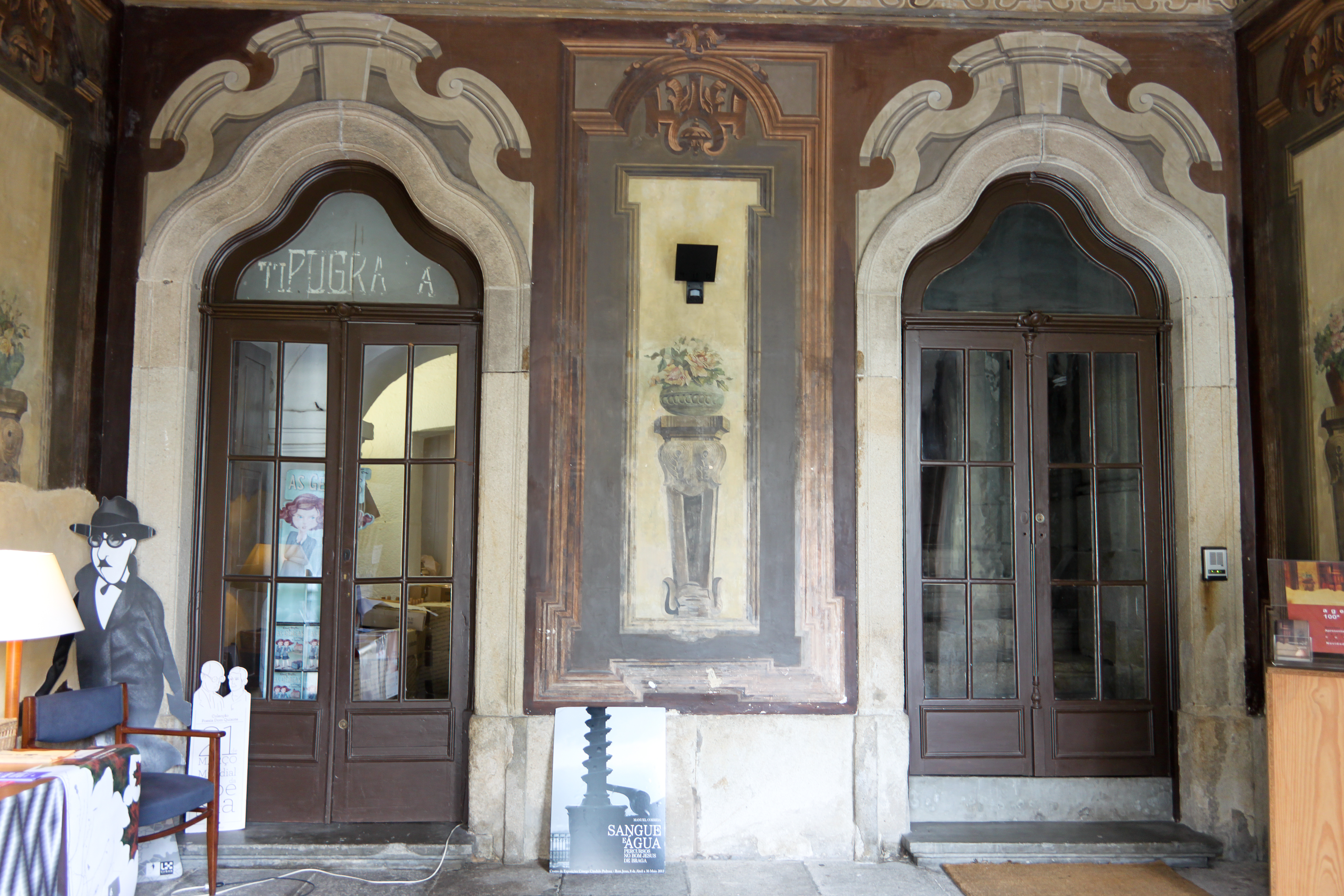 This file was uploaded for Wiki Loves Monuments in Portugal with the unique identifier 74587.